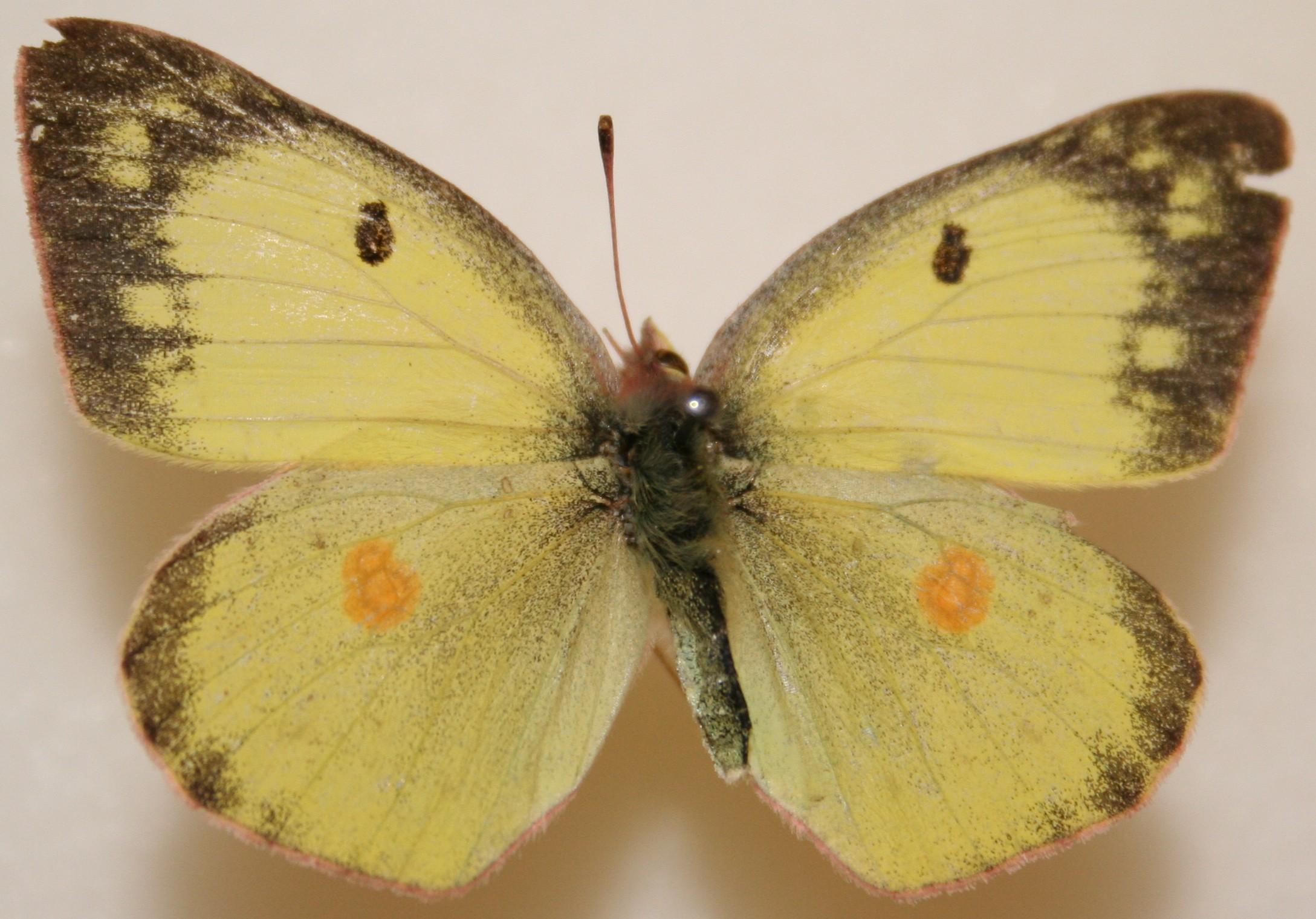 Female Clouded Sulphur, Colias philodice